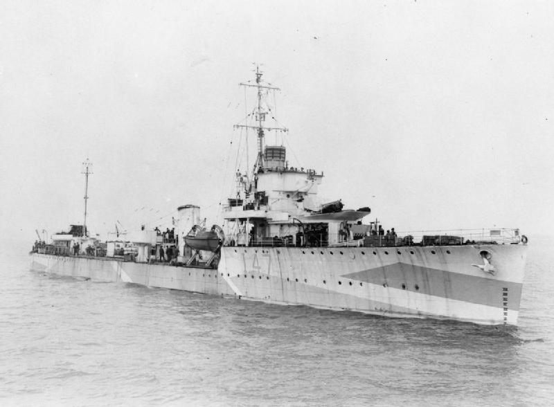 Photograph of British destroyer HMS Westcott.